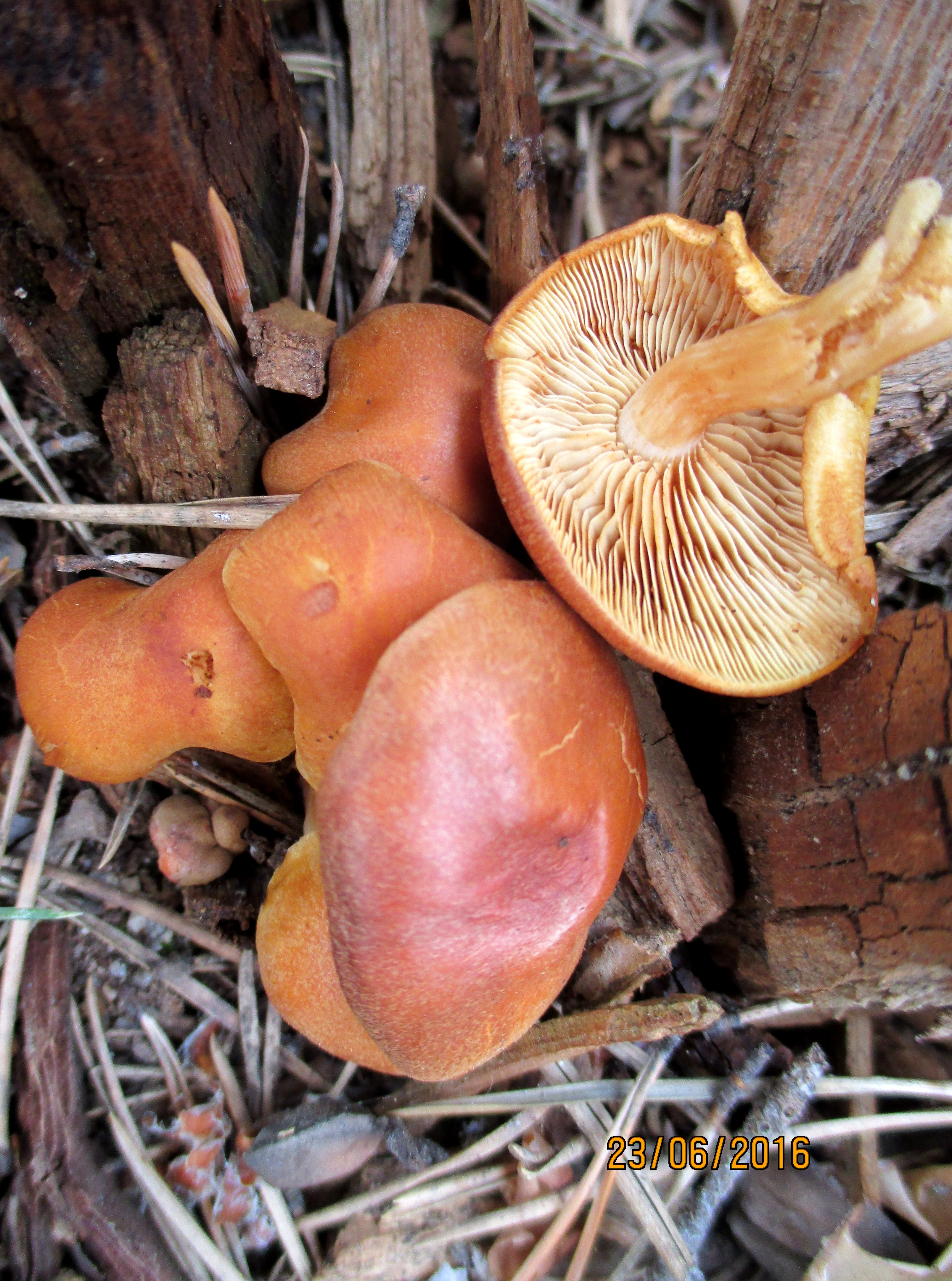 Gymnopilus sapineus group Image location: Borovoye National Park, Akmola District, Kazakhstan Pholiota (Fr.) P. Kumm. Cap: 3-5cm wide, convex, sometimes with slightly sunken centre when old, often irregular in plan because crowded; colour is orange up to irregular reddish-yellow and purplish-orange. Cap surface is smooth up to glossy when dry; flesh is thin whitish. Gills: attached with notched edge (pinching out end), almost free when old, light yellow up to dull orange-pink, close and narrow up to moderately broad with short and very short additional gills. Stalk: 4-6cm long, 0.5-0.8cm thick and hollow with a cavity between stalk and a cap centre. Edibility: no data. Habitat: small group or crowded clusters on partially rotten stumps in pine-tree forest with rare birches. June-August (?) Recognized by sight For more information about this, see the observation page at Mushroom Observer.